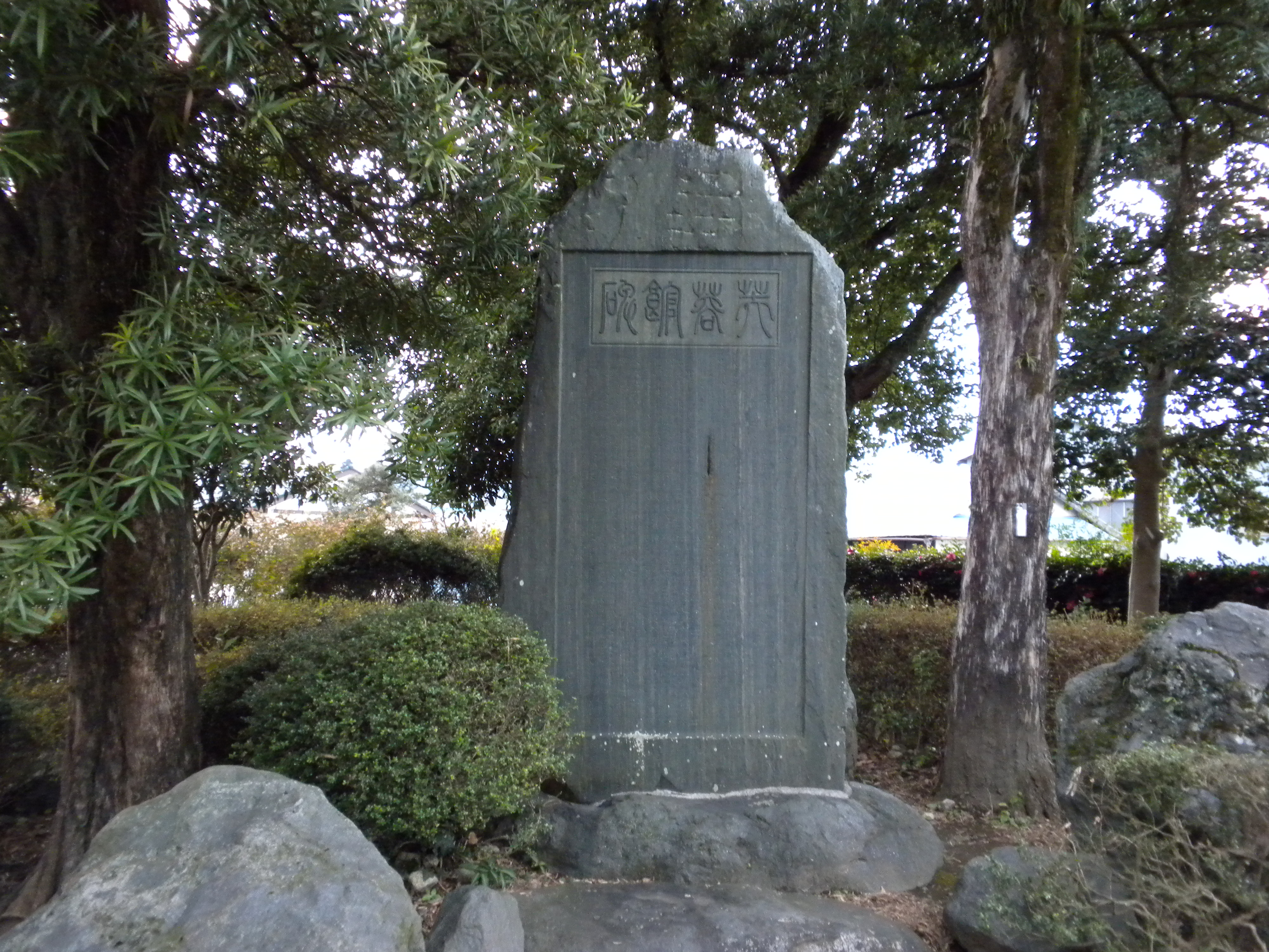 fuyoukan